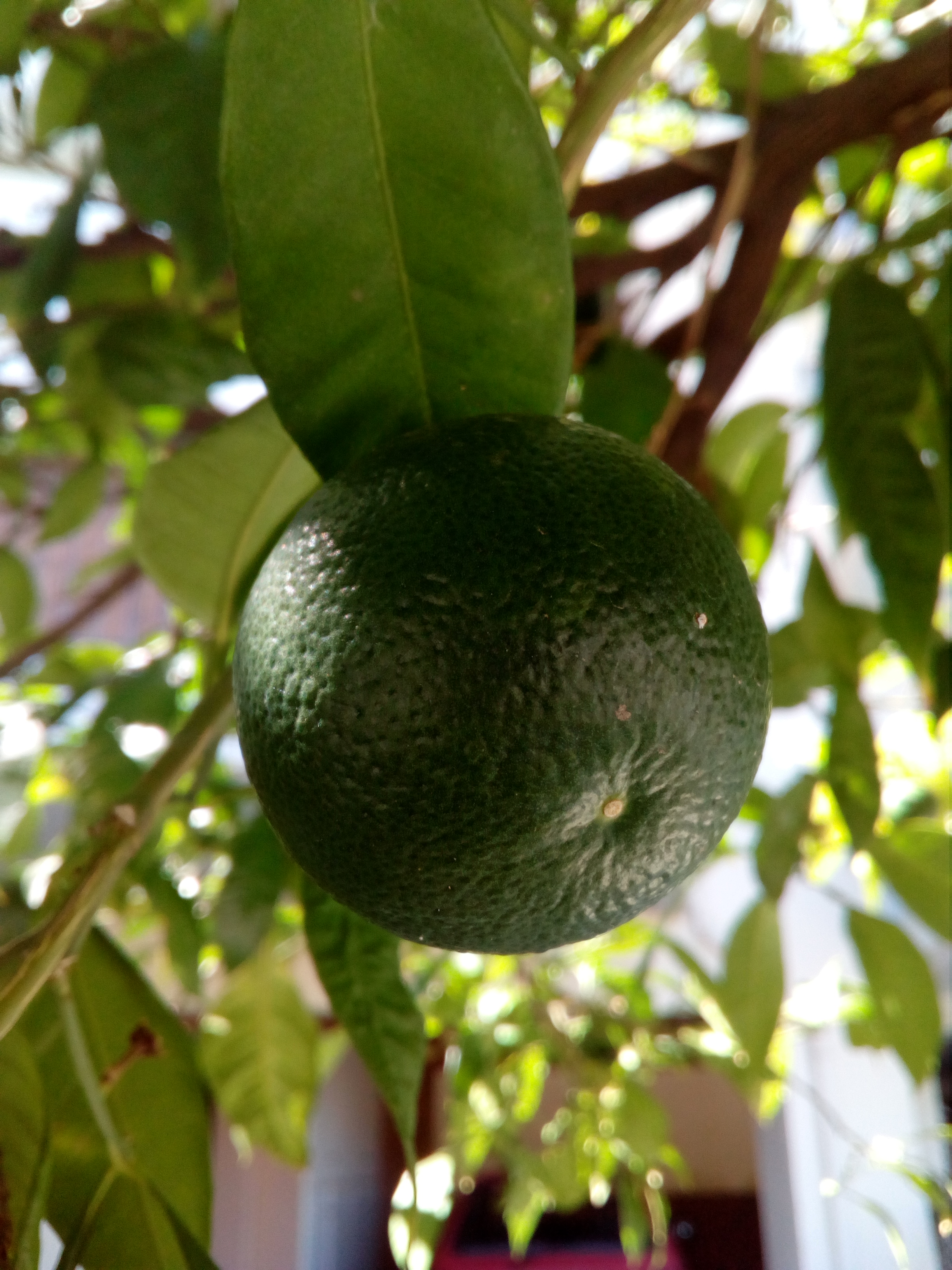 Unripe bitter orange fruit